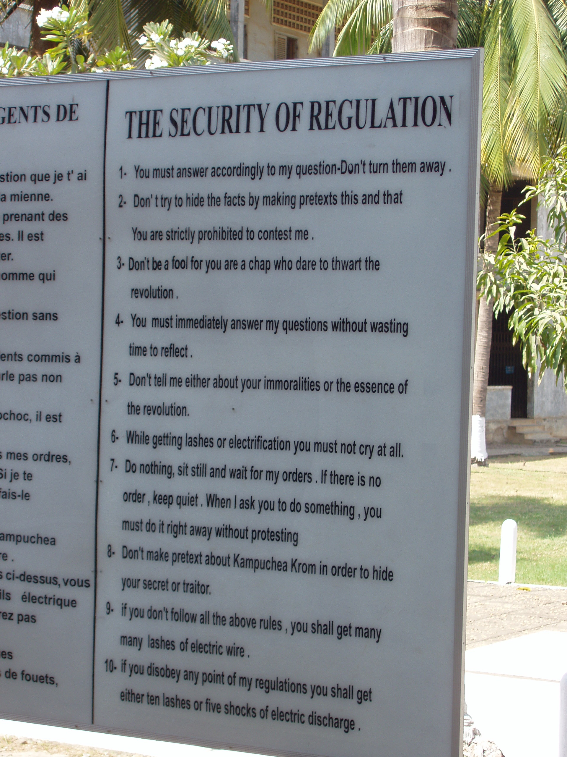 Immagine presa dalla Wikipedia inglese: Image:Concentration camp rules.jpg Author: User:Lokiloki I took this photograph in 2003 and released all rights. This photograph is of the official camp "rules" at Tuol Sleng, Cambodia.